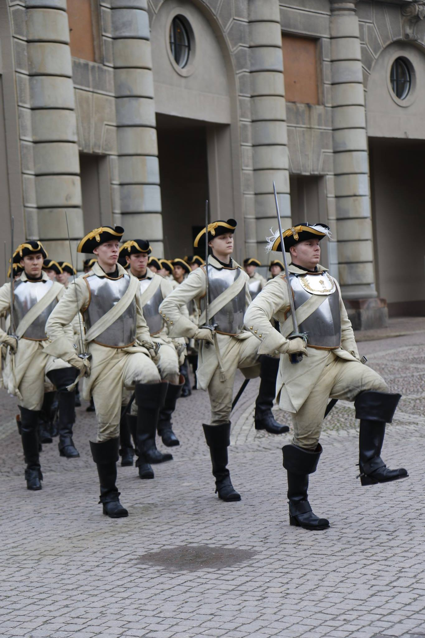 Swedish Life Guard Dragoons serving as 'drabantvakt' (Drabant Guard) in the uniform of Charles XI in conjunction with the state visit of Italy to Sweden November 13th, 2018 in the outer courtyard of the Royal Castle of Stockholm. The Drabant Guard is ceremonial bodyguard to the incoming head of state in state visits to Sweden.